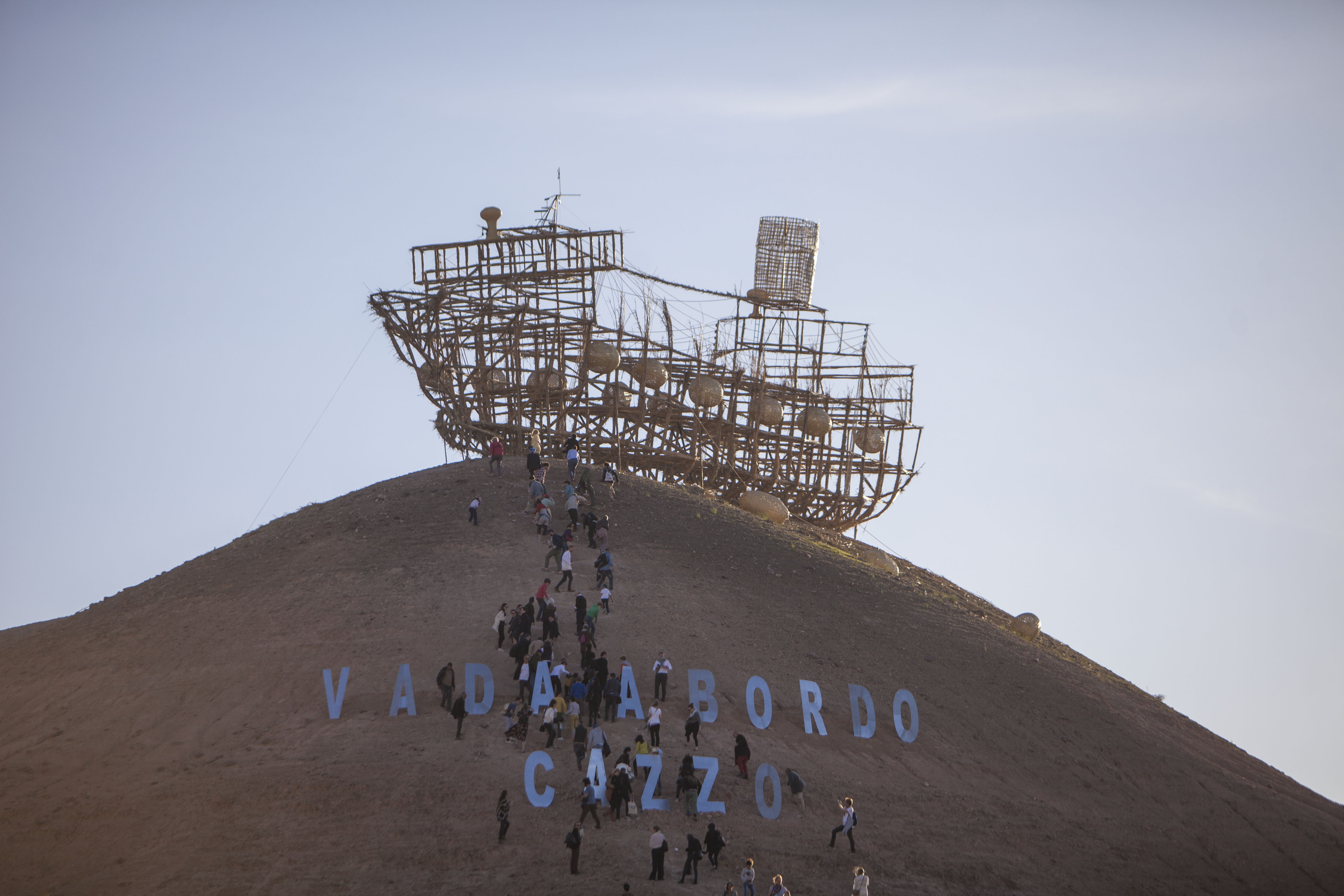 Voice in the Wilderness by Alexander Ponomarev For the Marrakech Biennale 5